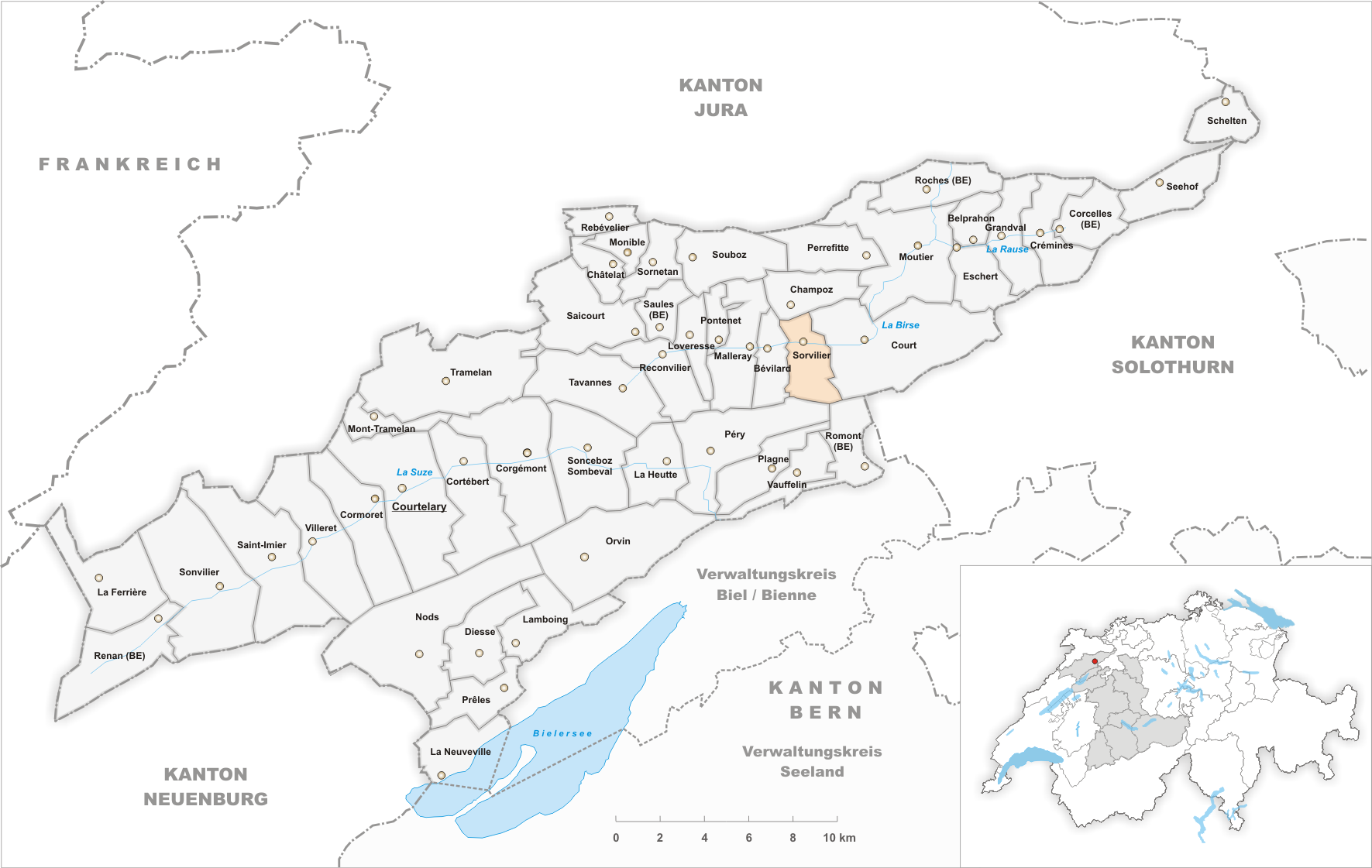 Municipality Sorvilier